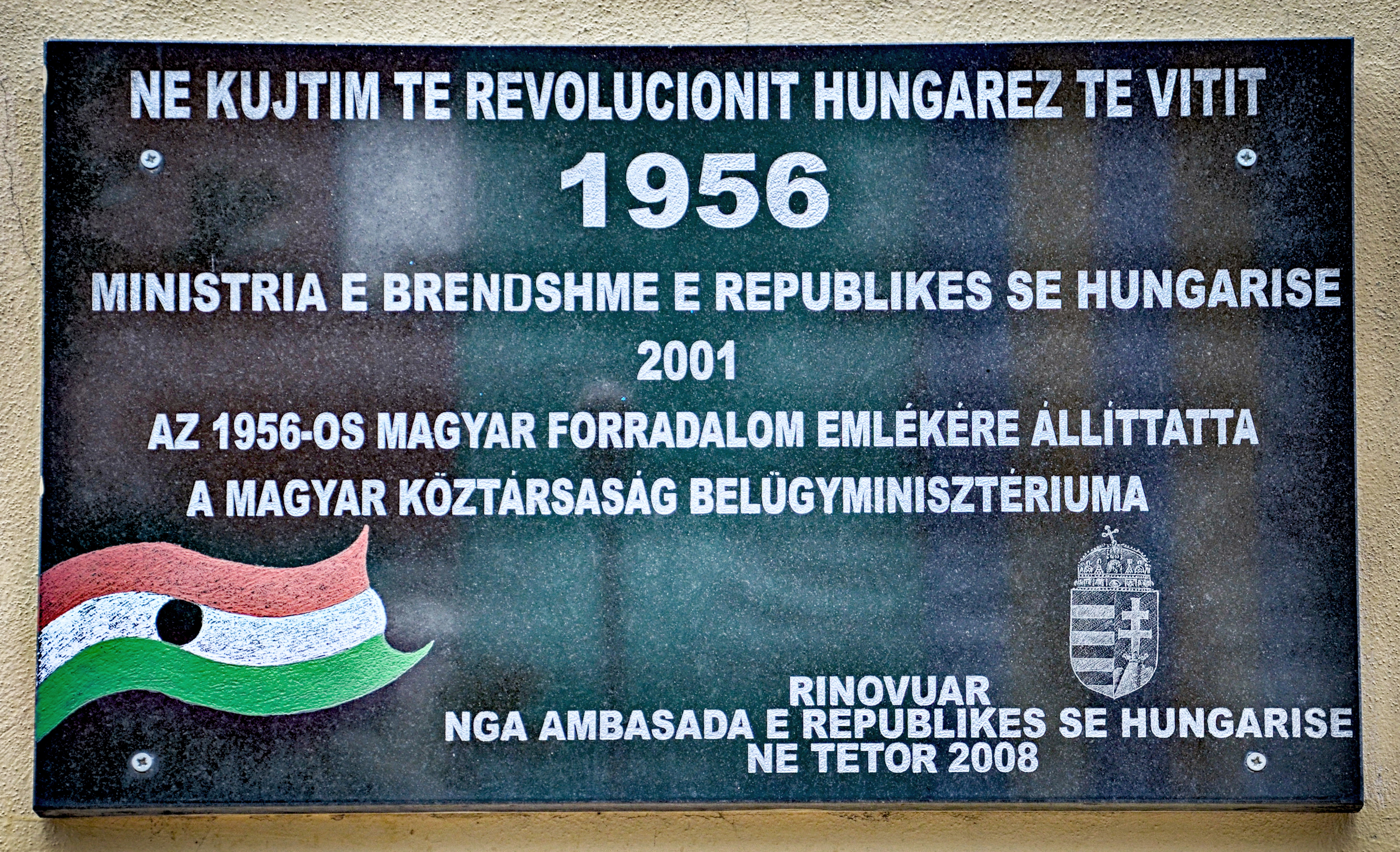 The memorial plaque to the 1956 Hungarian Revolution in Shkodër, Albania